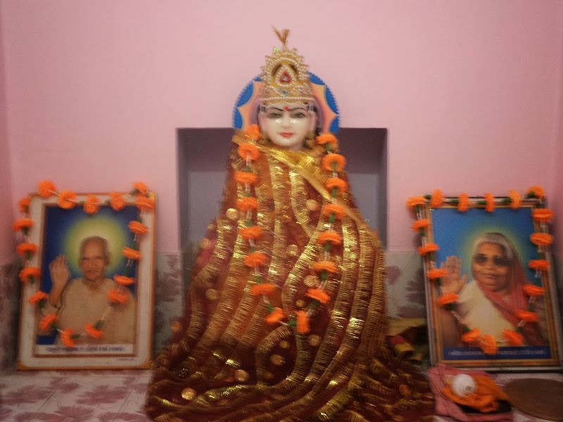 This image will use in Gaytri mandir Wikipedia